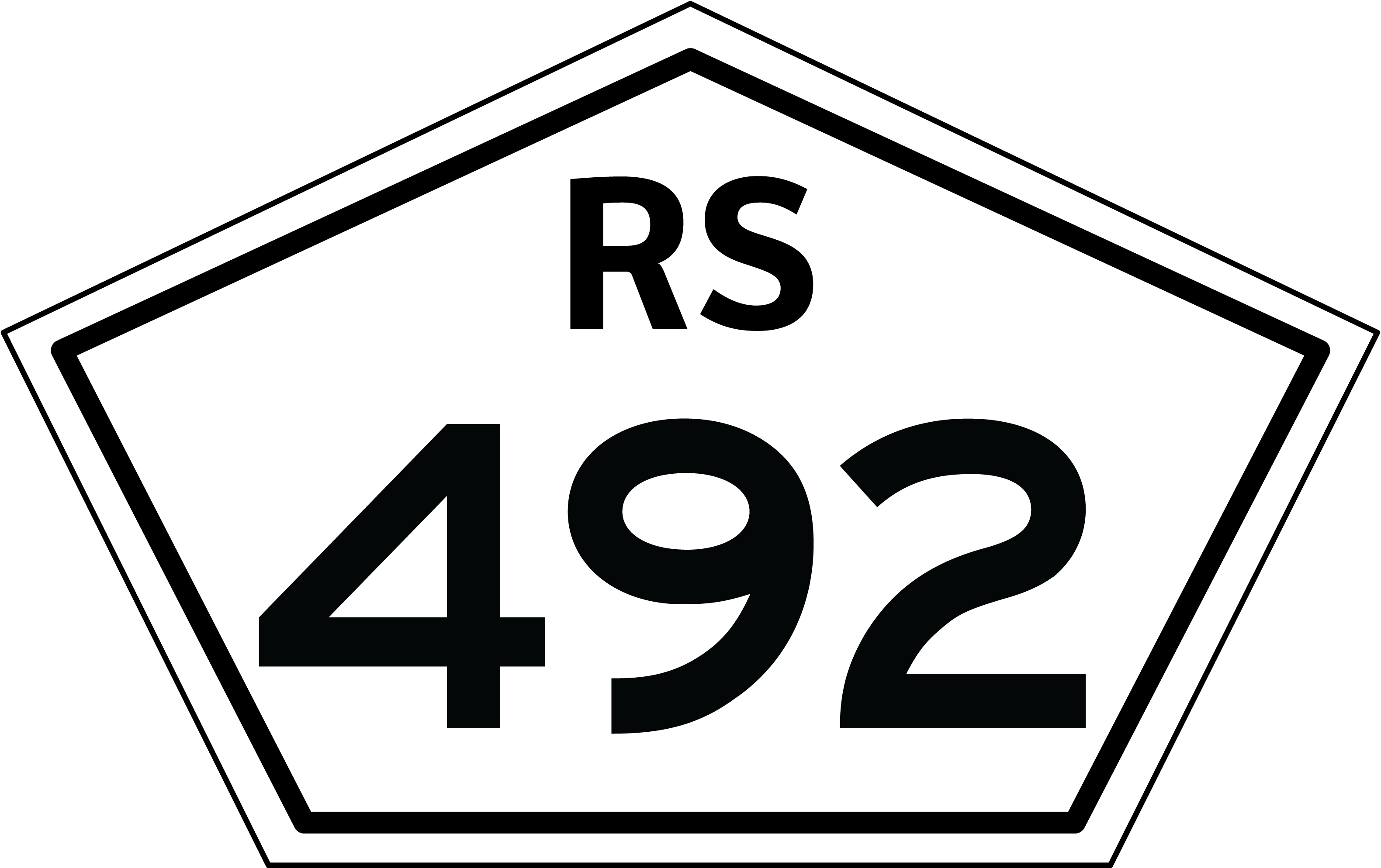 RS-492 State road in Rio Grande do Sul, Brazil. Rua estadual no Rio Grande do Sul, Brasil.